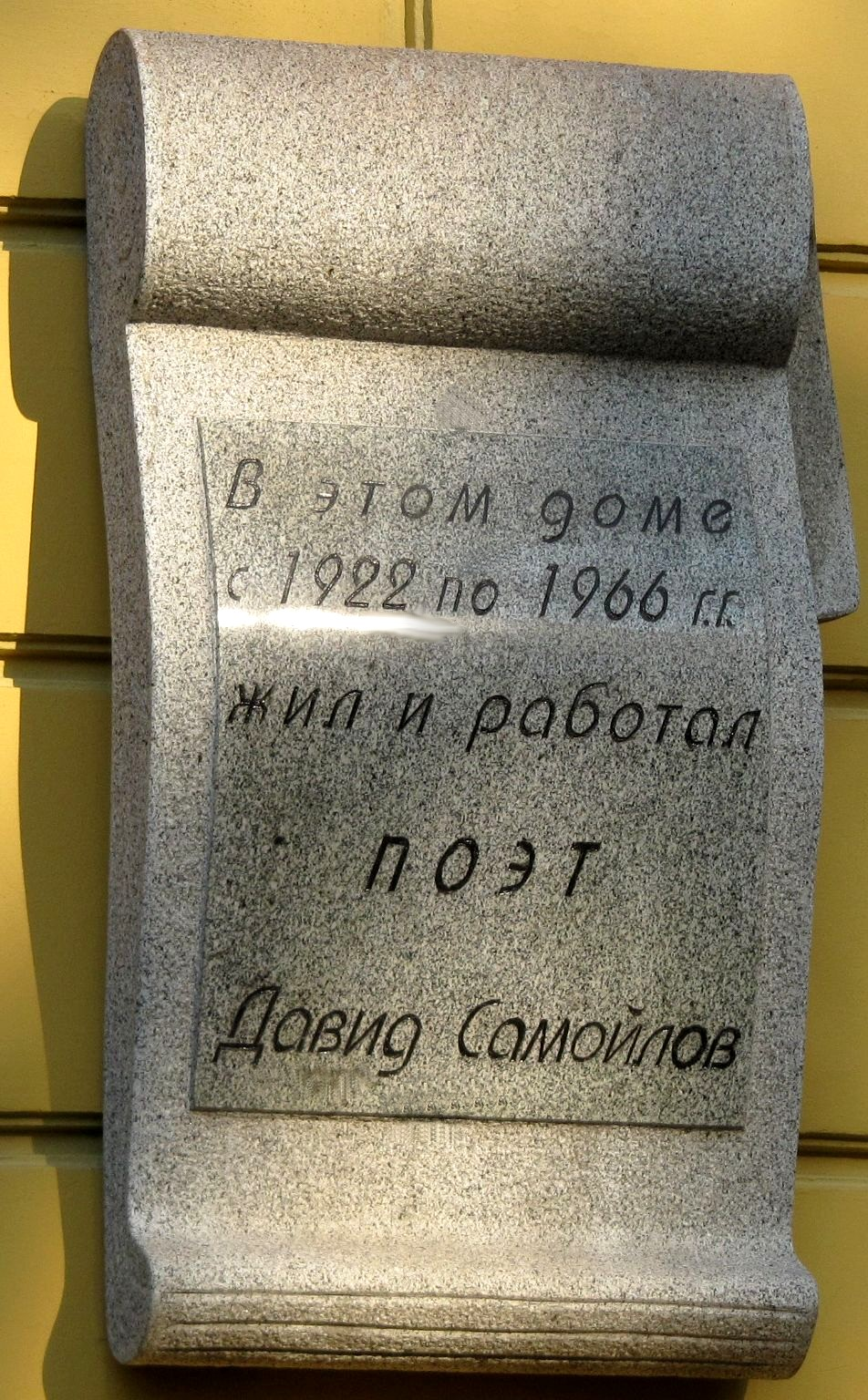 The famous Soviet poet David Samoylov lived here in 1922 -1966 (Moscow, Borby Square 15/1)